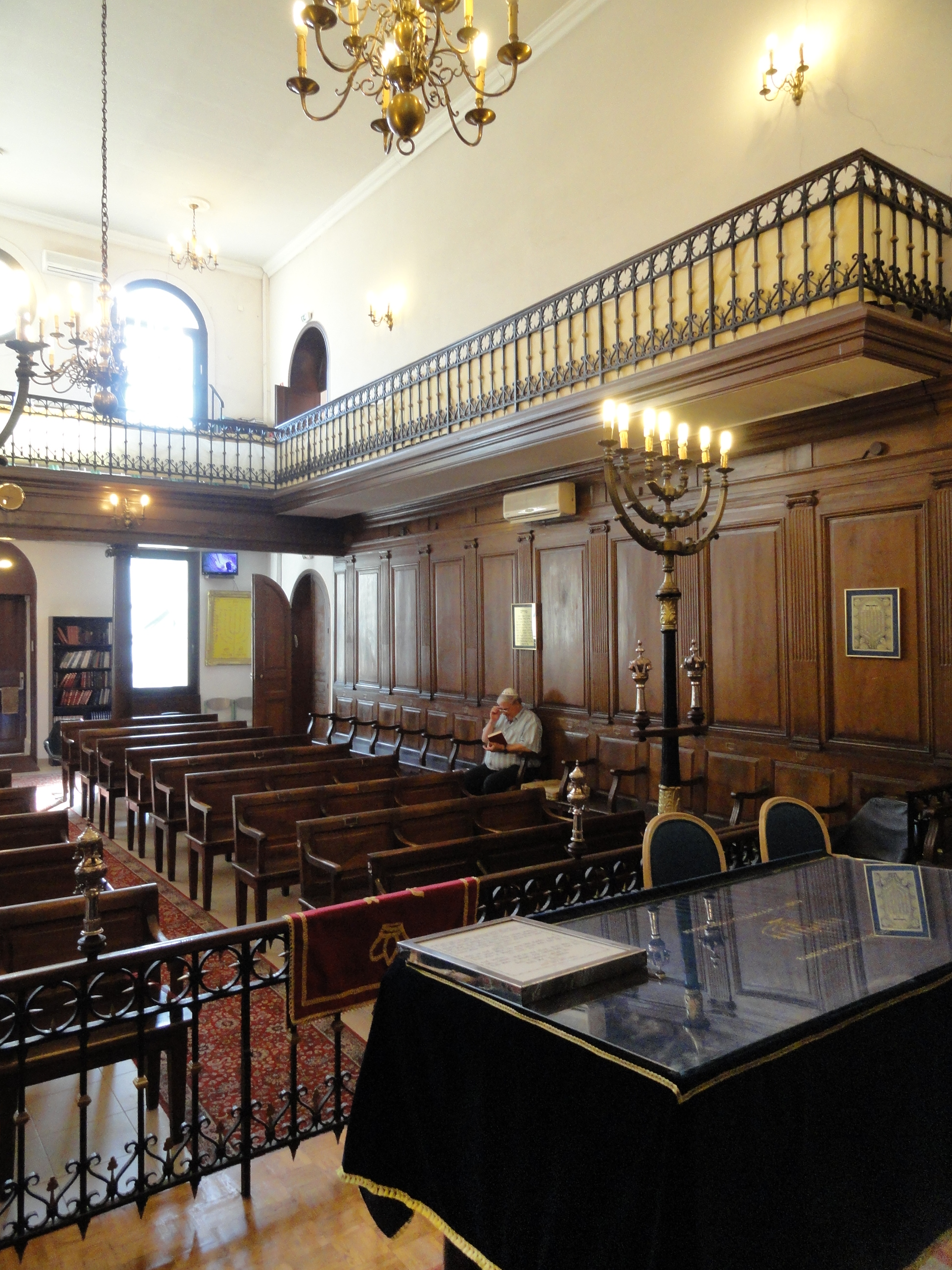 Inside of the synagogue of Nîmes (France)